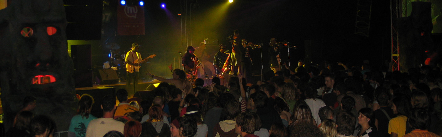 The Skatalites at Njoki Summer Festival, Ajdovščina, Slovenia. From left to right: Lloyd Knibb (drums), Devon James (guitar), Lester "Ska" Sterling (alto sax), Val Douglas (bass), Karl "Cannonball" Bryan (tenor sax), Kevin Batchelor (trumpet) & Vin "Don Drummond Jr." Gordon. (trombone). Doreen Schaffer isn't present on stage, and Ken Stewart (keyboards) is behind a loudspeaker on the left.